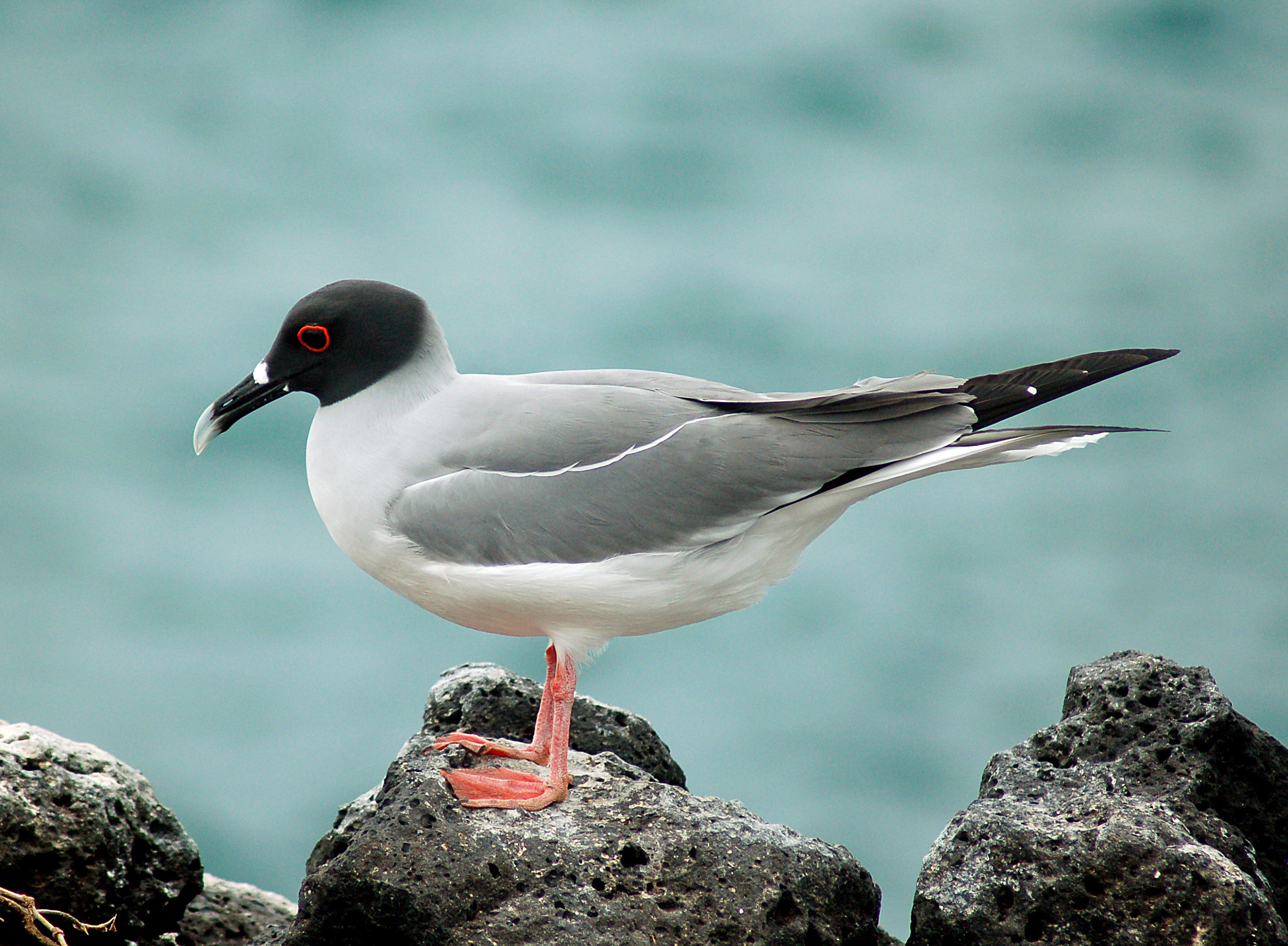 A Swallow-tailed Gull in Galapagos Islands.